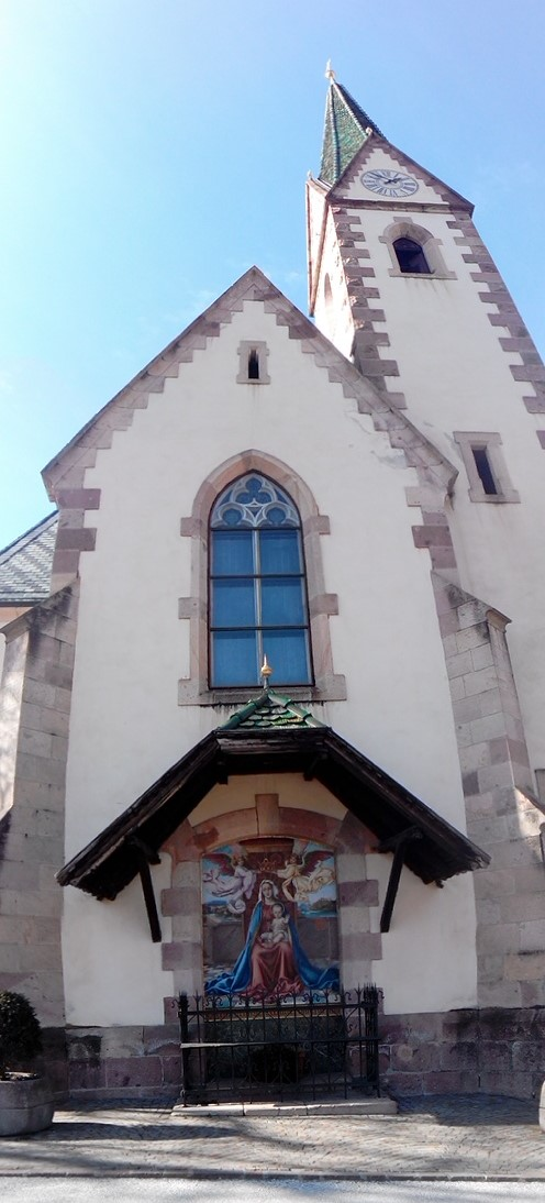 Eastern facade of the St Josefskirche in Frangart, South Tyrol